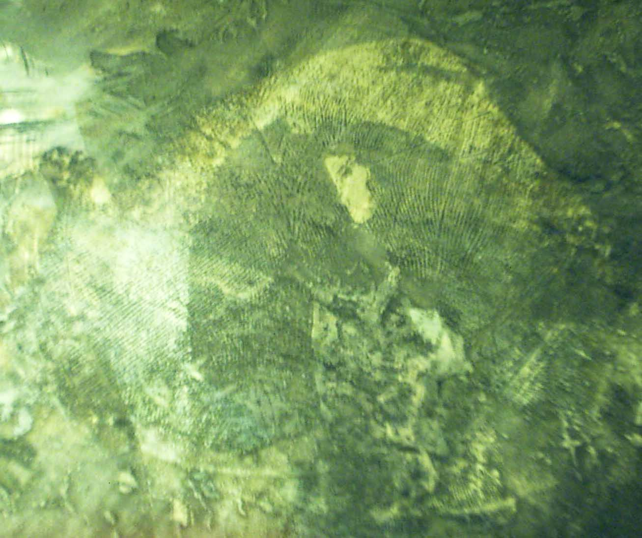 Image of an Acid Etching Technique